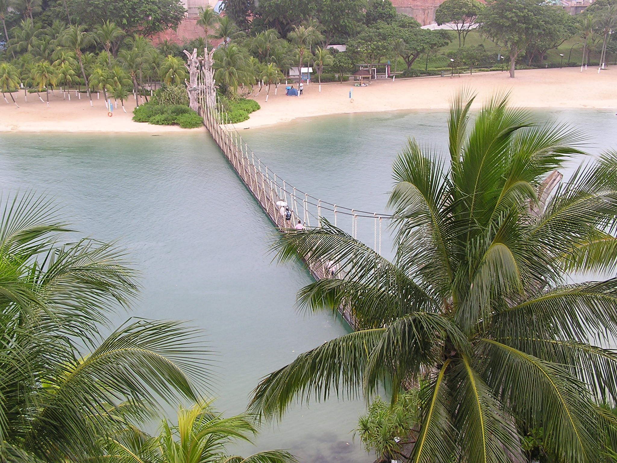 The suspension bridge off Palawan Beach, Sentosa, Singapore.